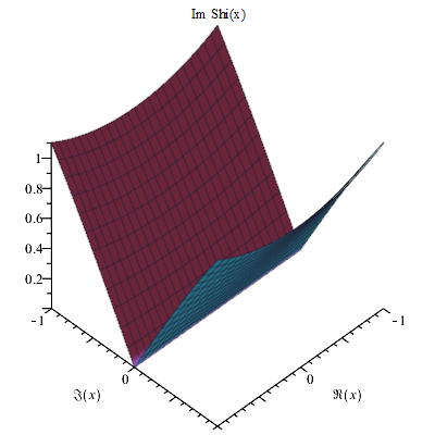 Shi(x) Im complex 3D plot